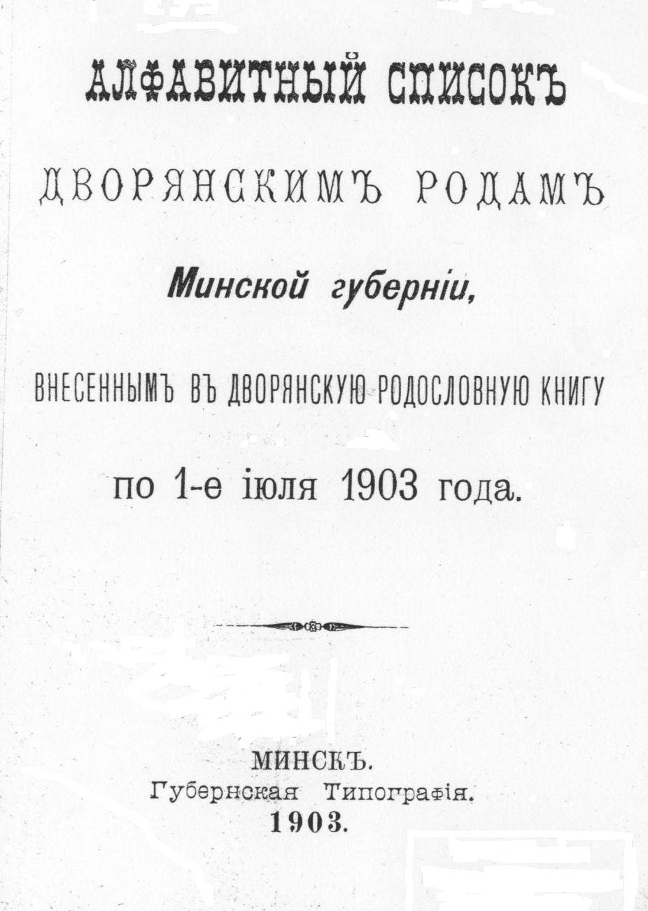 Rodoslovnaya kniga Minsk. gub. 1903